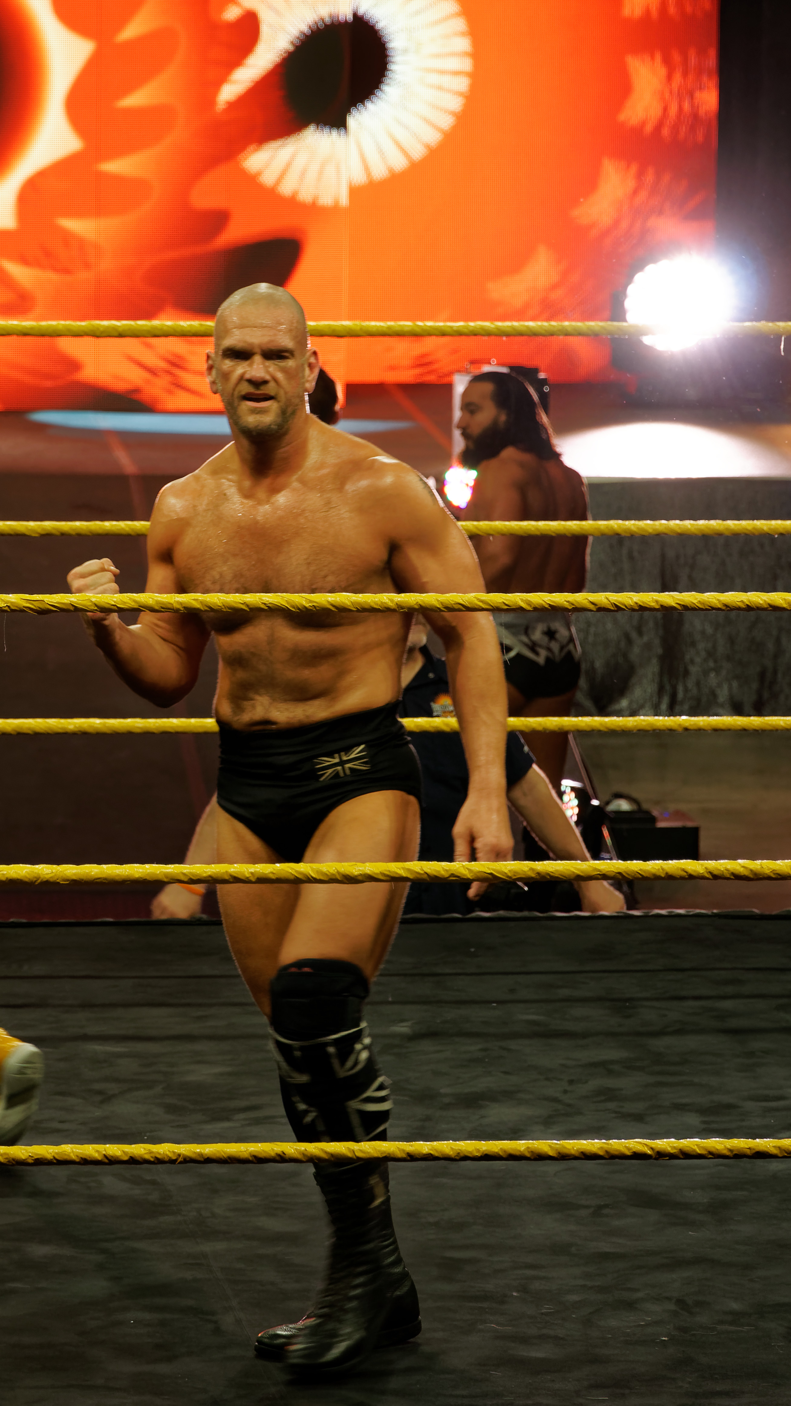 NOLA 2018 - WWE Axxess - Saturday - Danny Burch&Oney Lorcan Vs Jack Gallagher&Tony NeseDanny Burch&Oney Lorcan def. Jack Gallagher&Tony Nese( Deux semaines a Nola pour la ville et pour WWE Wrestlemania XXXIVTwo weeks Nola for the city and for WWE Wrestlemania XXXIV )